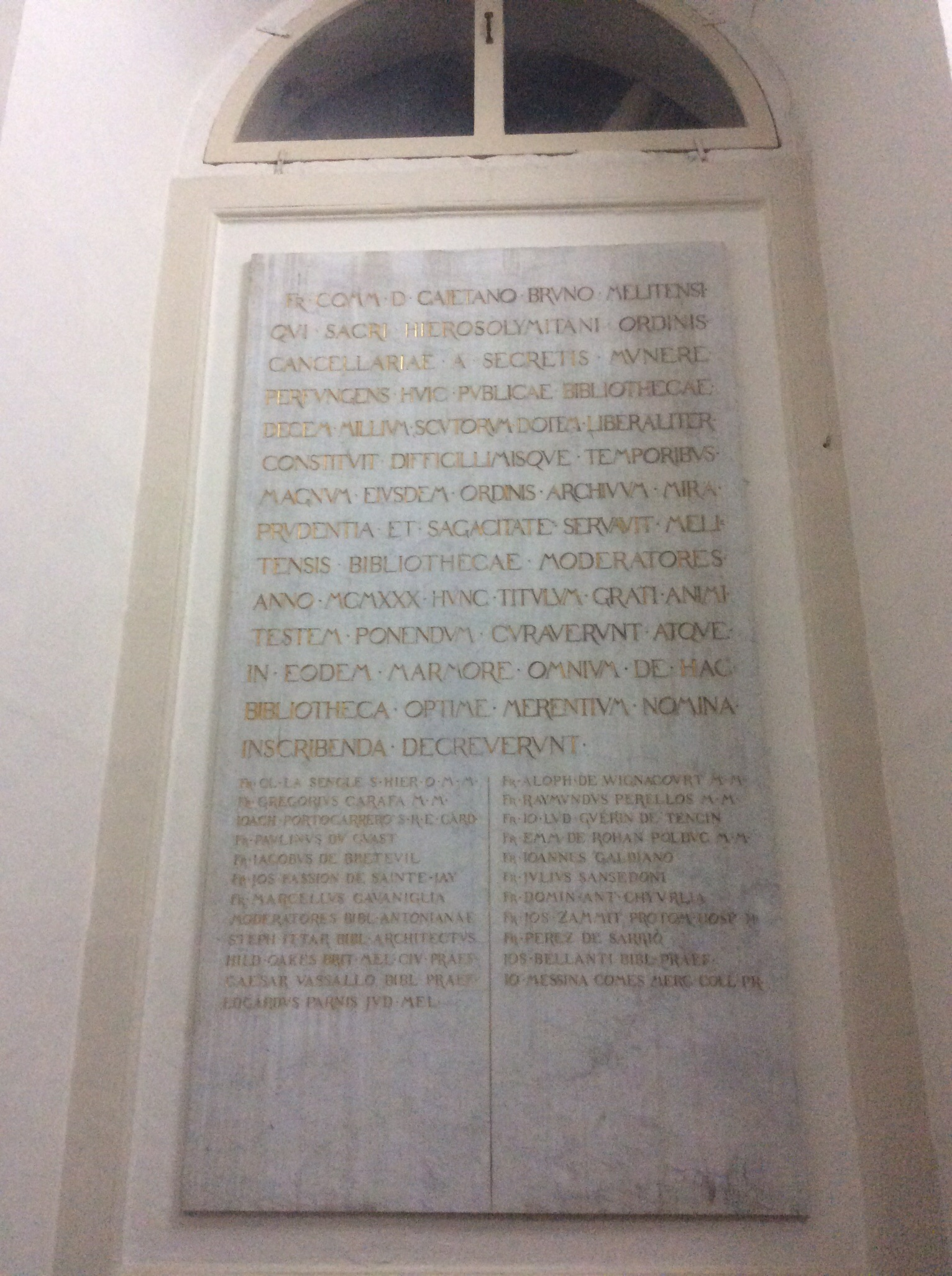 Plaque at the Malta National Library